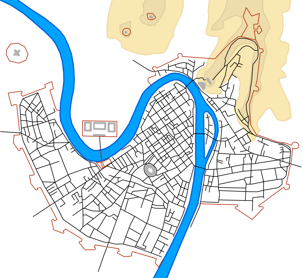 Verona asburgic